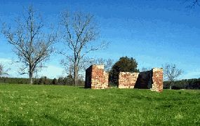 ruins of ancillary jail structure at Green Spring Plantation site, Colonial National Historical Park